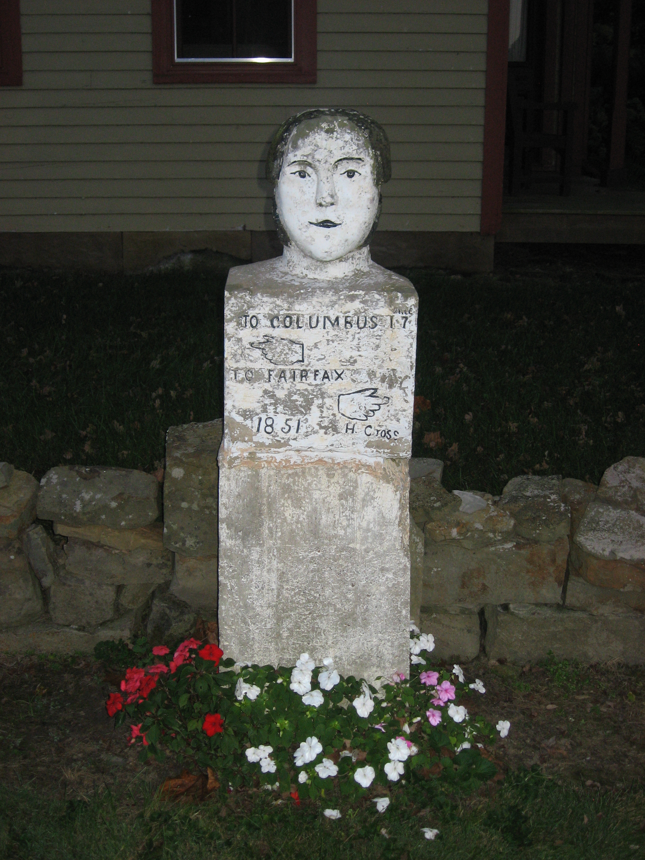 Front of the Stone Head Road Marker, located on the southern side of the intersection of State Road 135 and Bellsville Road at Stone Head in Van Buren Township, Brown County, Indiana, United States. Built in 1851, the marker and the house behind it are listed together on the National Register of Historic Places.